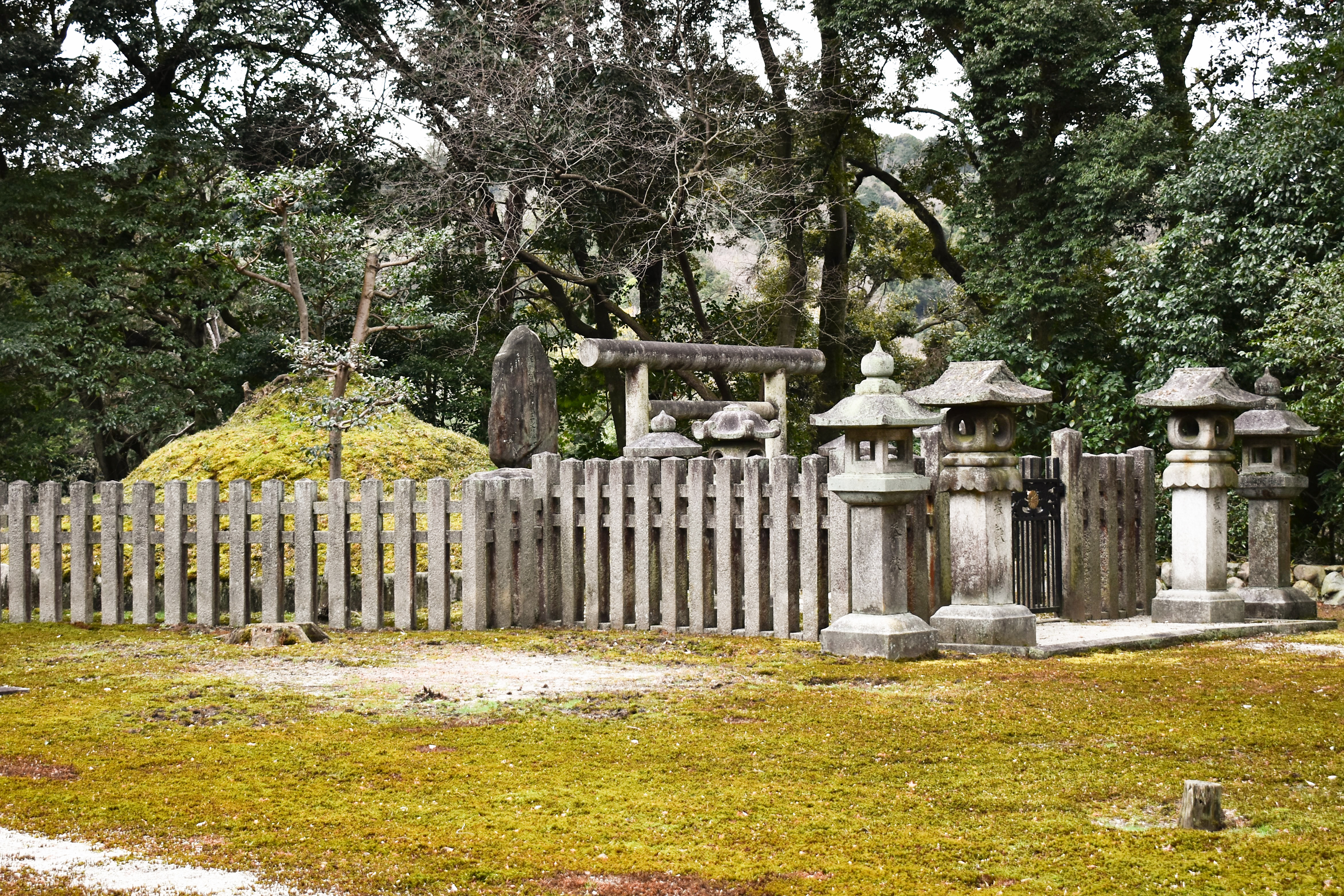 The grave of Imperial Prince Kuninomiya Asahiko. Located in Sennyu-ji Temple in Higashiyama Ward, Kyoto City, Kyoto Prefecture.